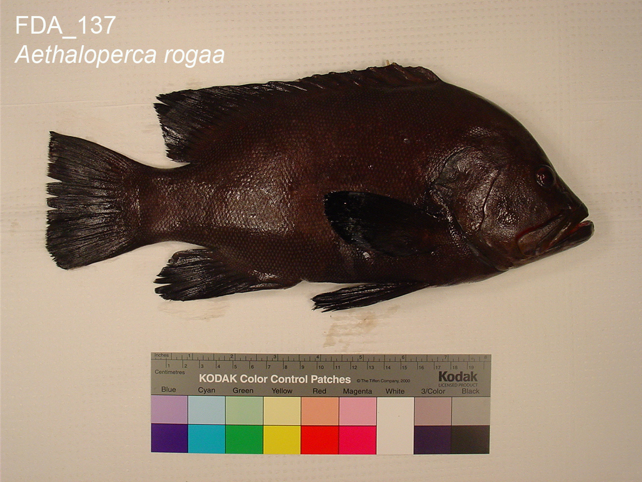 Aethaloperca rogaa, Redmouth Grouper, FDA Market Name: Grouper Florida Department of Agriculture, Collection Code: 93643 Photographer: J. Deeds U.S. Food and Drug Administration